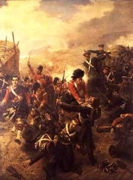 The Attack on the Redan, Sebastopol, c.1899 (oil on canvas) Crimean War